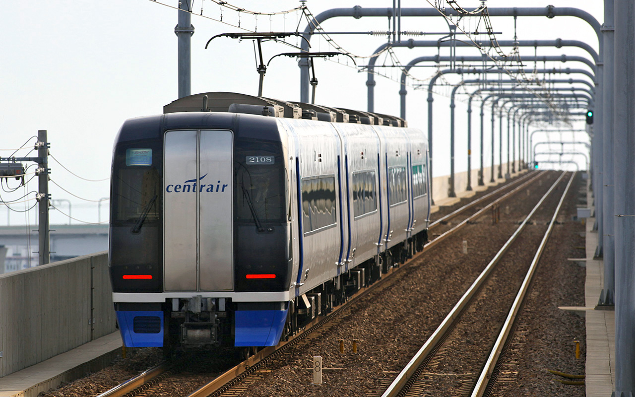 Meitetsu 2000 series EMU (2009F, between Rinkū Tokoname Stn. and Central Japan International Airport Stn.)